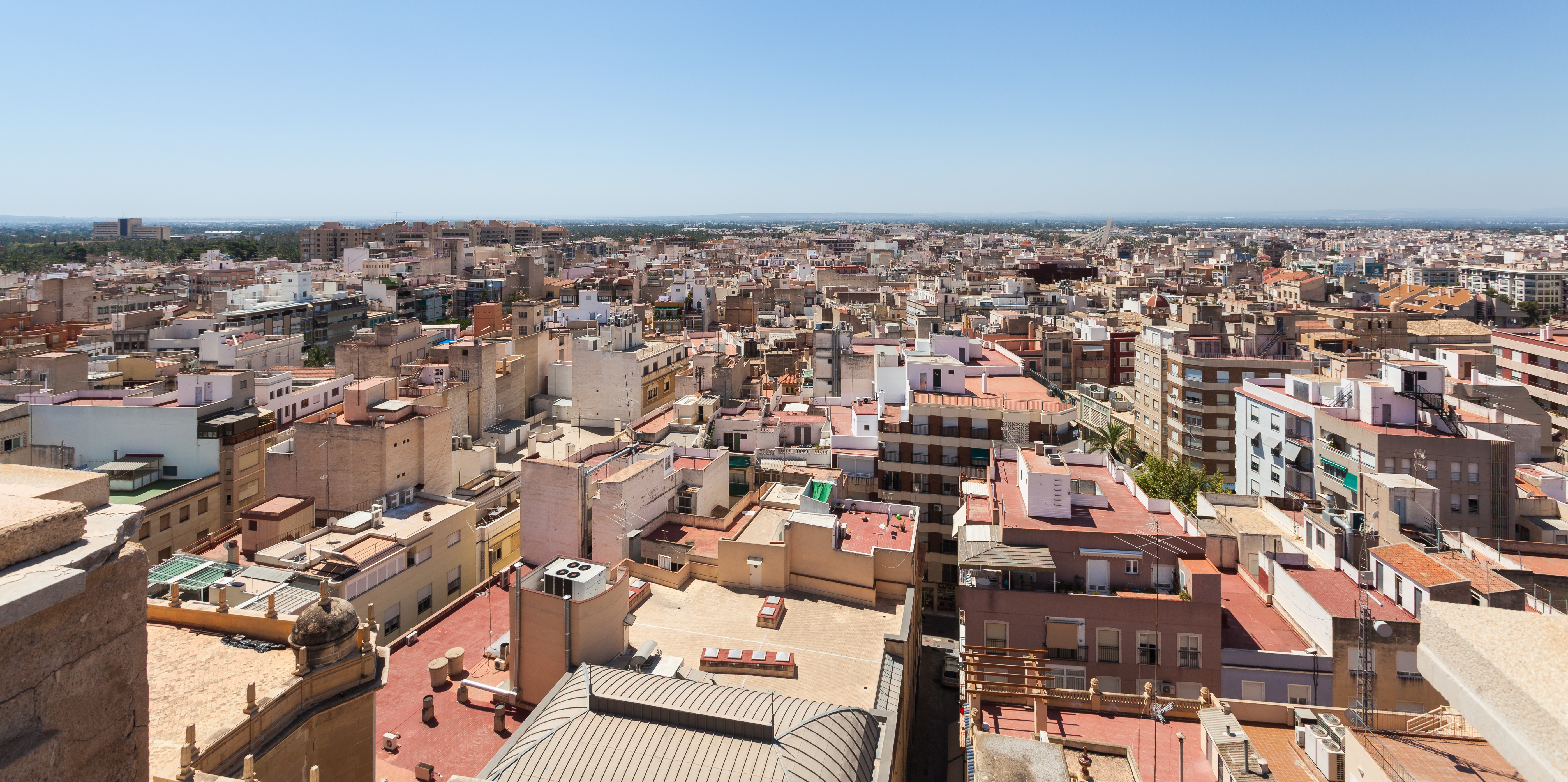 View of Elche from the tower of St Mary Basilica, Spain